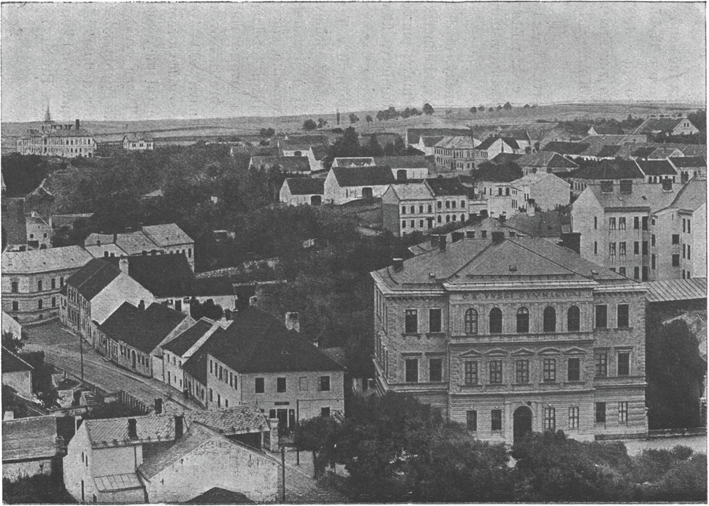 The view of Gymnázium Třebíč in Třebíč, made from town tower.